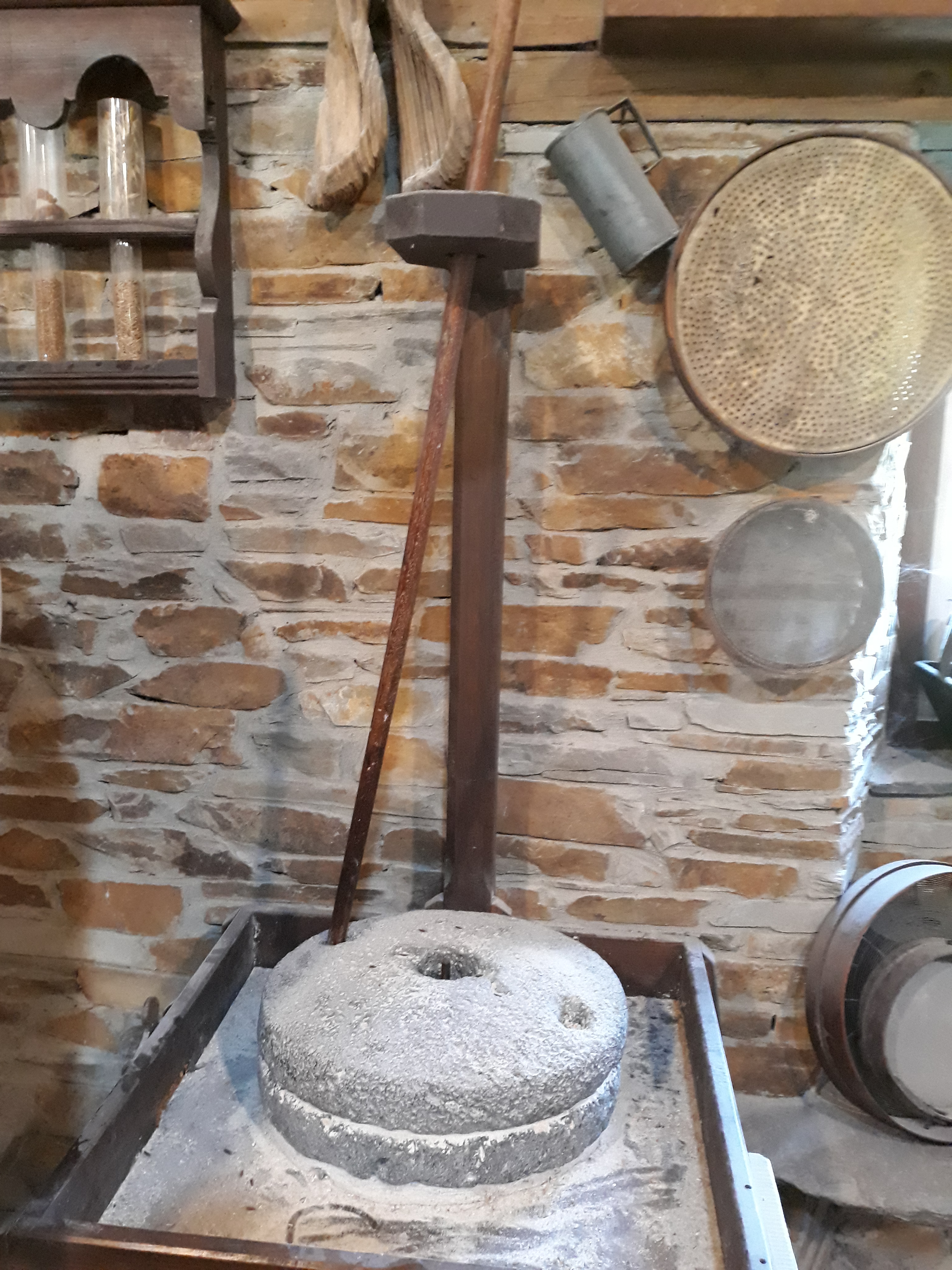 Ethnographic Museum of Grandas de Salime, Asturias, Spain.